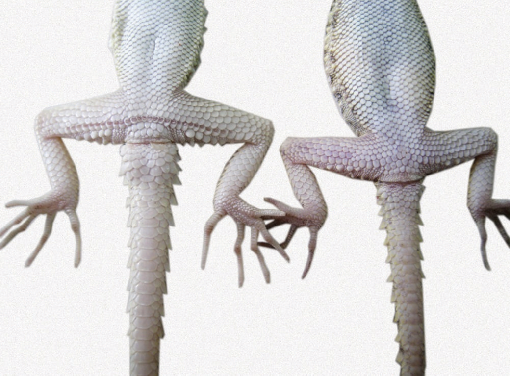 The ventral surface of Tenuidactylus caspius Femoral and preanal pores are present in males (left) and not in females (right)